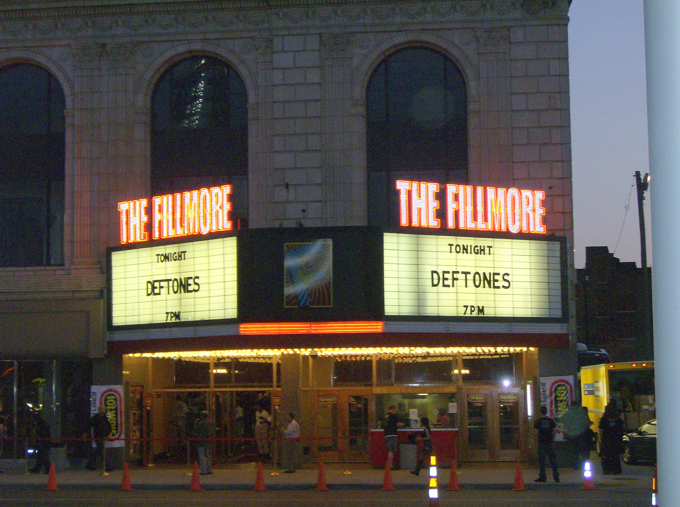 The marquee of The Fillmore Detroit theater, formerly the State Theatre, in Detroit, Michigan, United States.